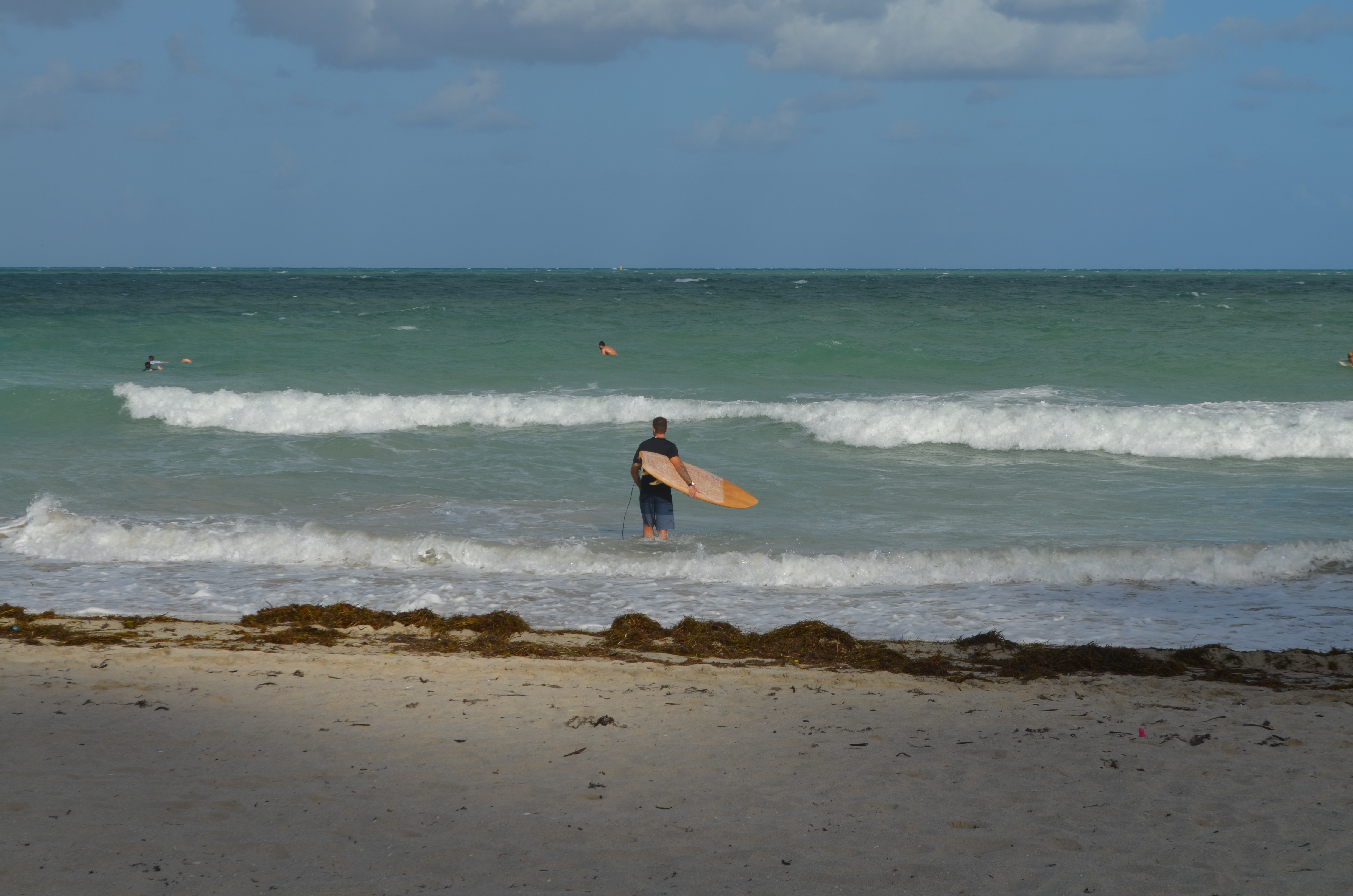 Miami Beach#Elevation and tidal flooding